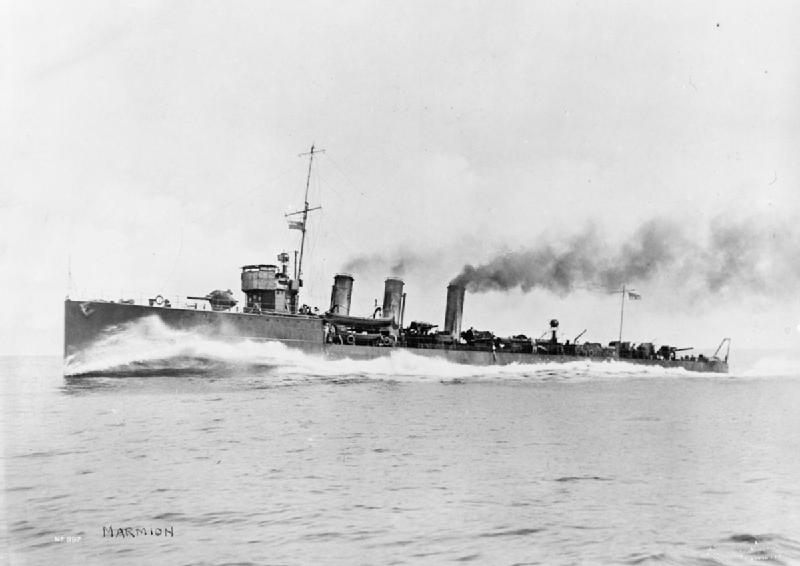 Photograph of British Admiralty M class destroyer HMS Marmion underway at speed.